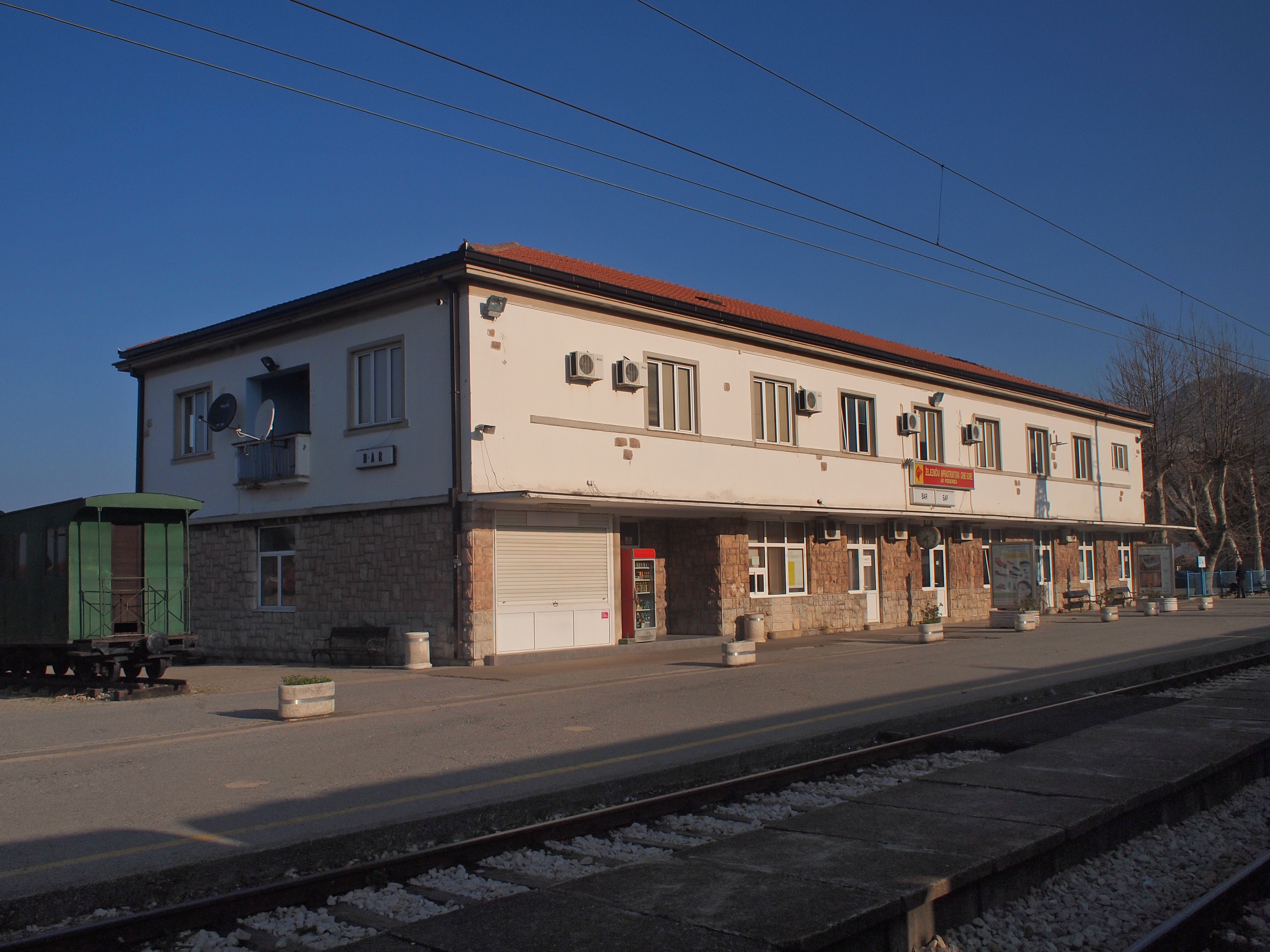 Bar train station. (Time in EET.)